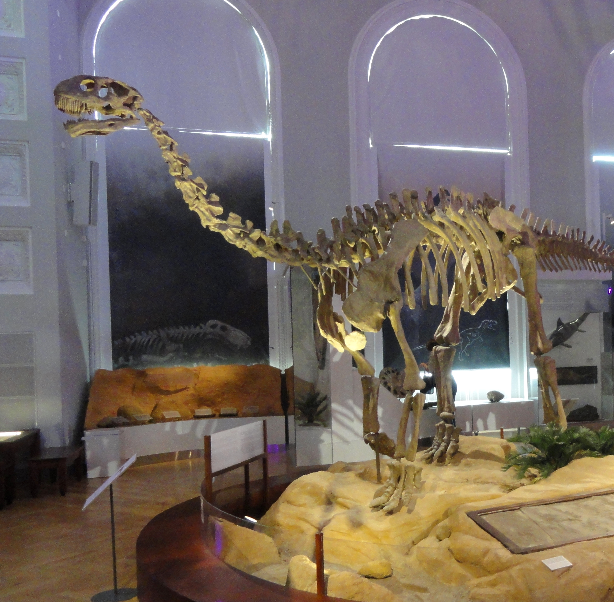 Exhibit in the Finnish Museum of Natural History, Helsinki, Finland.